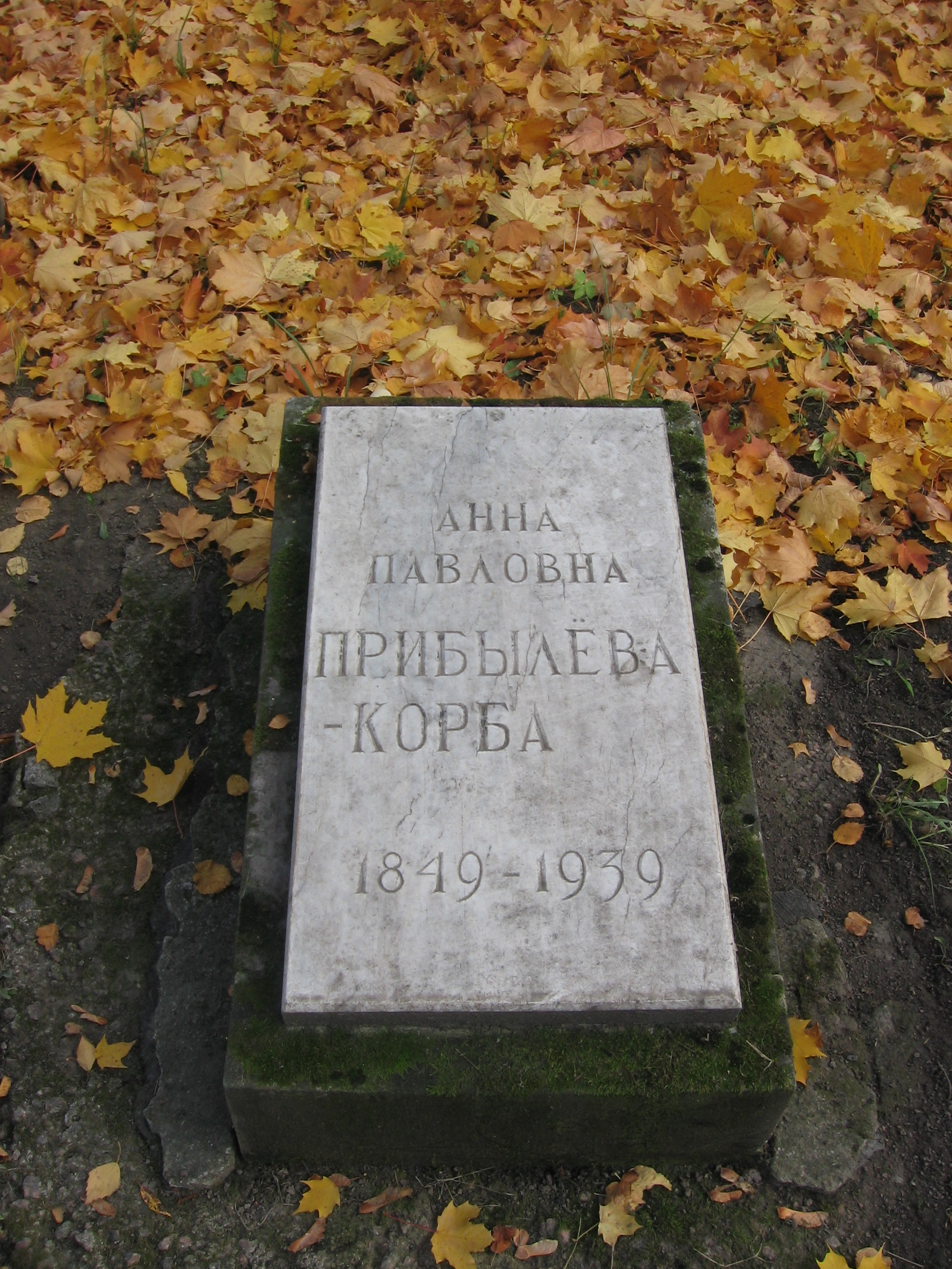 Grave of Anna Pribilyova-Corba